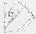 Ectoedemia canadensis